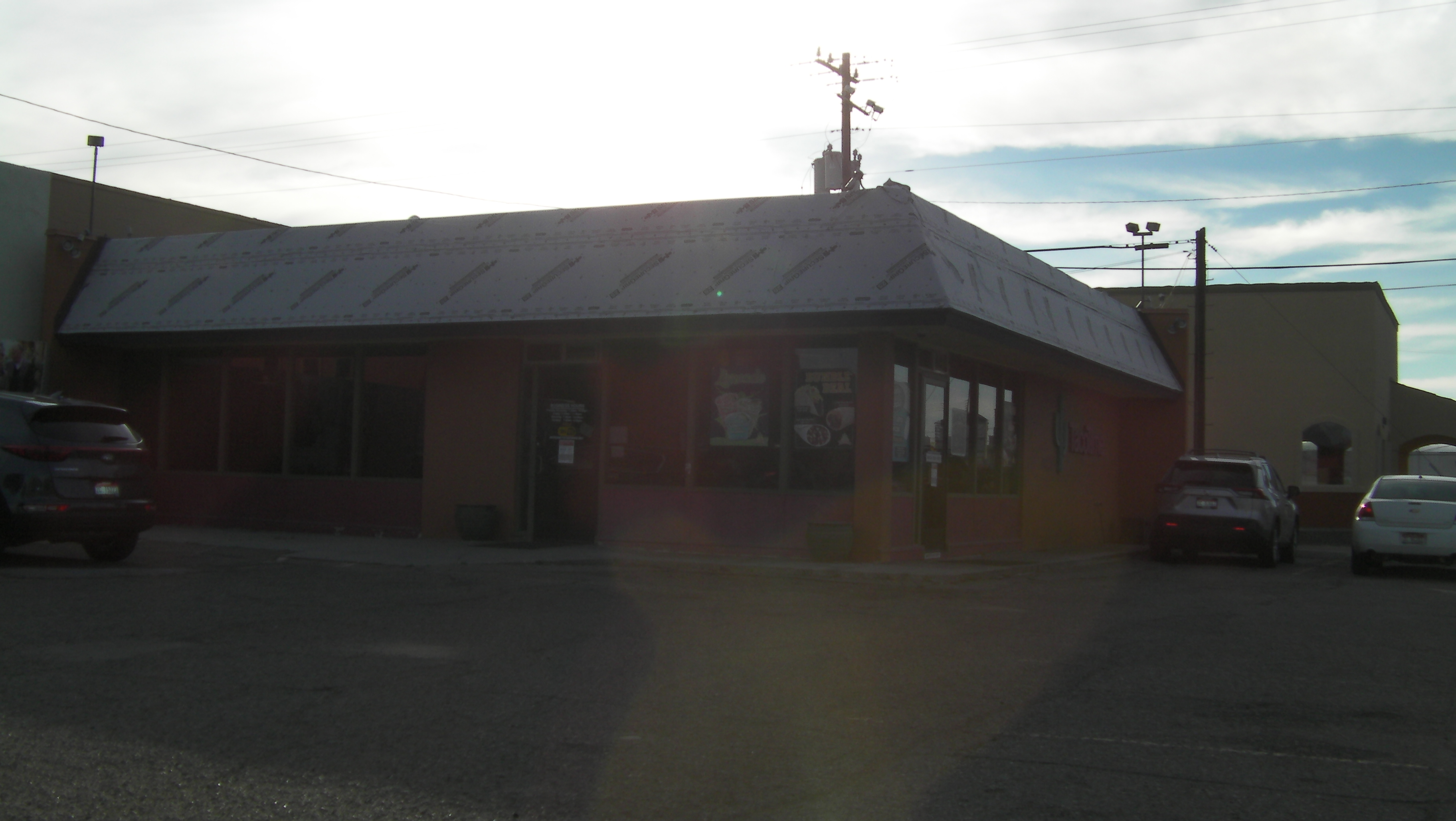 Construction Underway On A New Building, Photo taken June 1 2020